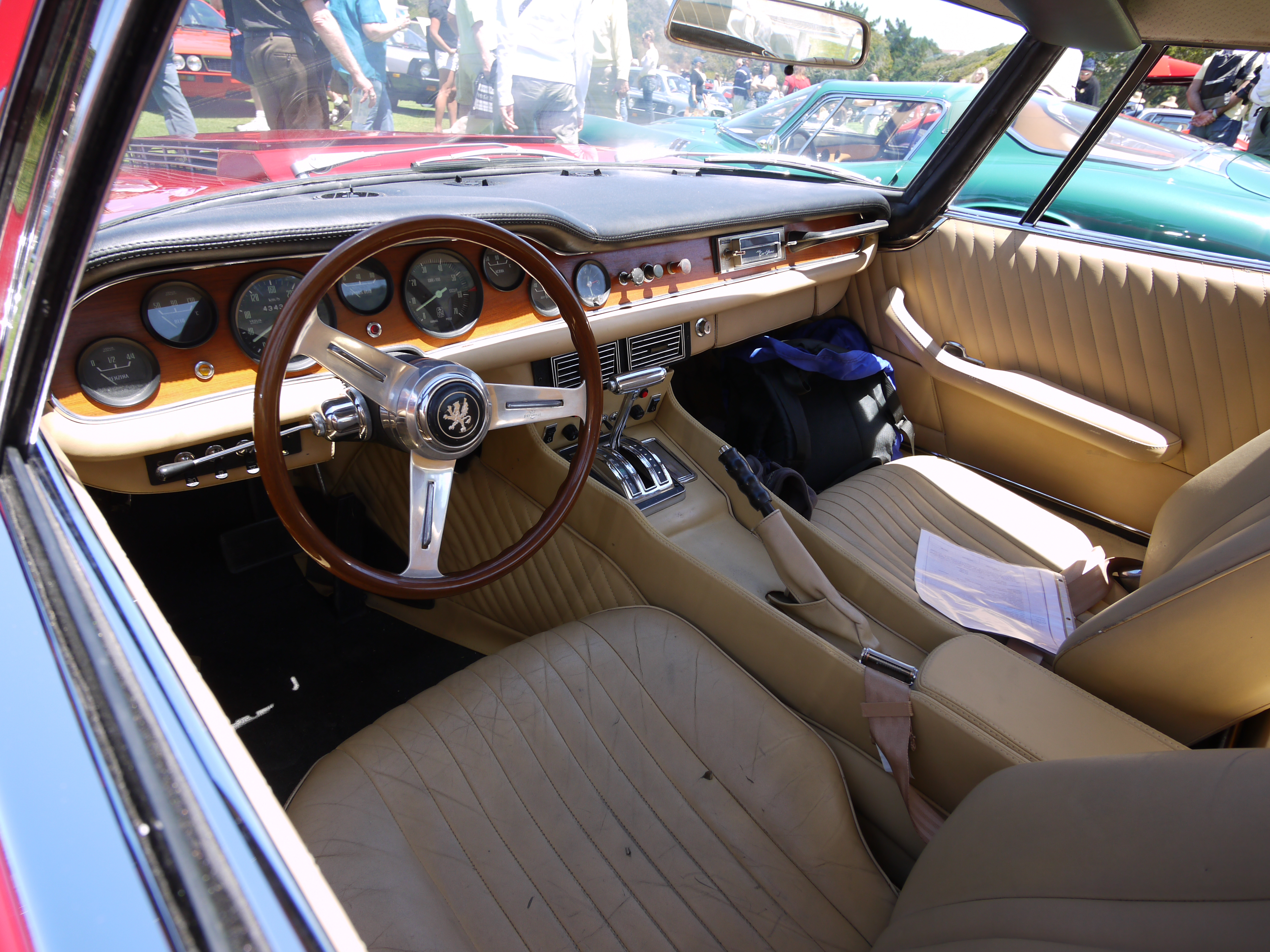 Iso Grifo IR8. Photograph taken at 2010 Concorso Italiano.